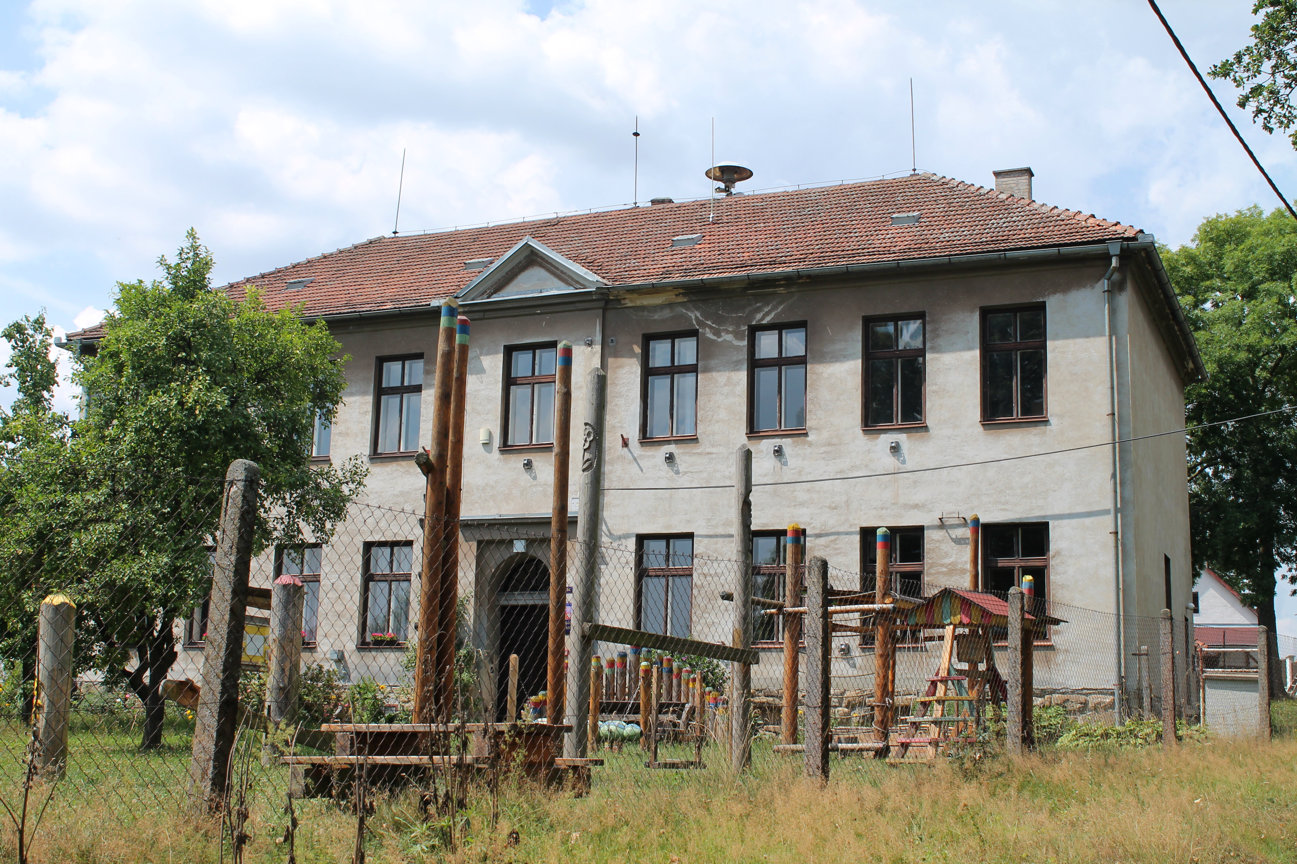 Municipal office, Hojkov, Jihlava District, Czech Republic